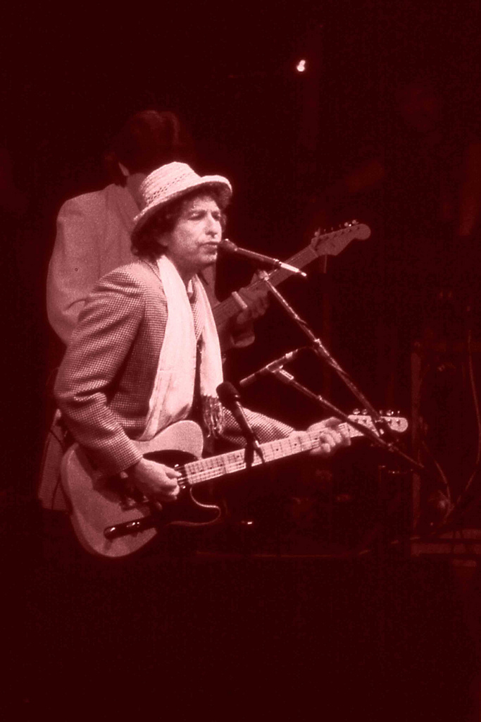 Bob Dylan performing in Ahoy Rotterdam The Netherlands June 1984